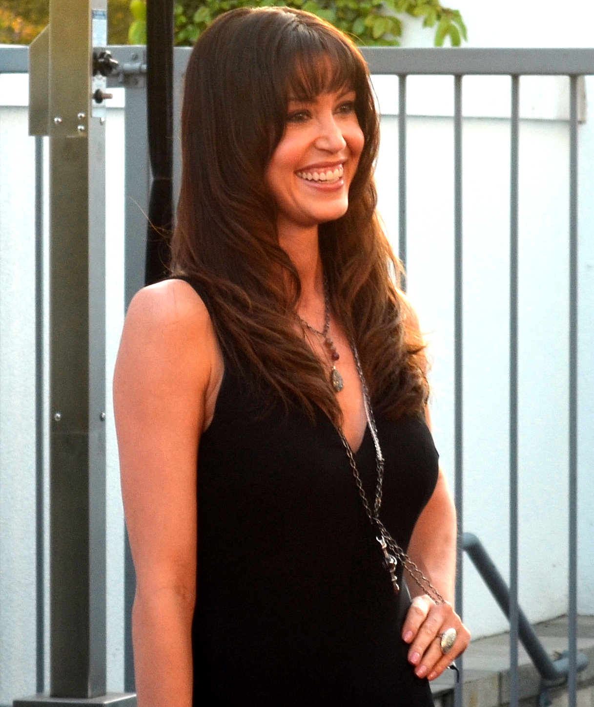 Shannon Elizabeth at the World Poker Tour Foundation’s Playing for a Better World 2012.